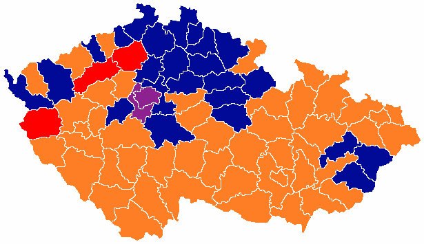 Leading party by district in the 2013 Czech legislative election Red: Communist Party of Bohemia and Moravia Orange: Czech Social Democratic Party Blue: ANO 2011 Purple: TOP 09